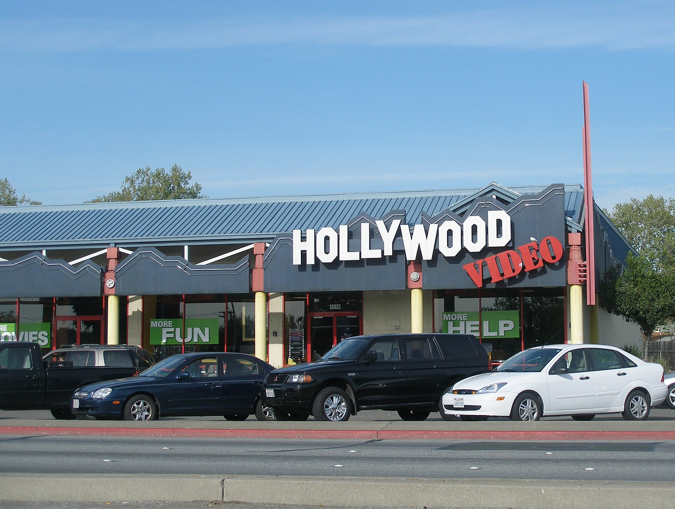 A Hollywood Video store in San Lorenzo, California. Photographed on April 7, en:2007 by user Coolcaesar.